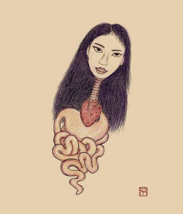 Krasue (Thai) or Ab (Khmer). a nocturnal female spirit of Southeast Asian folklore